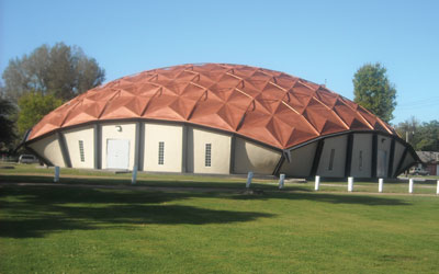 This an image of the Mary E. Brown Center, Metro East, Illinois.